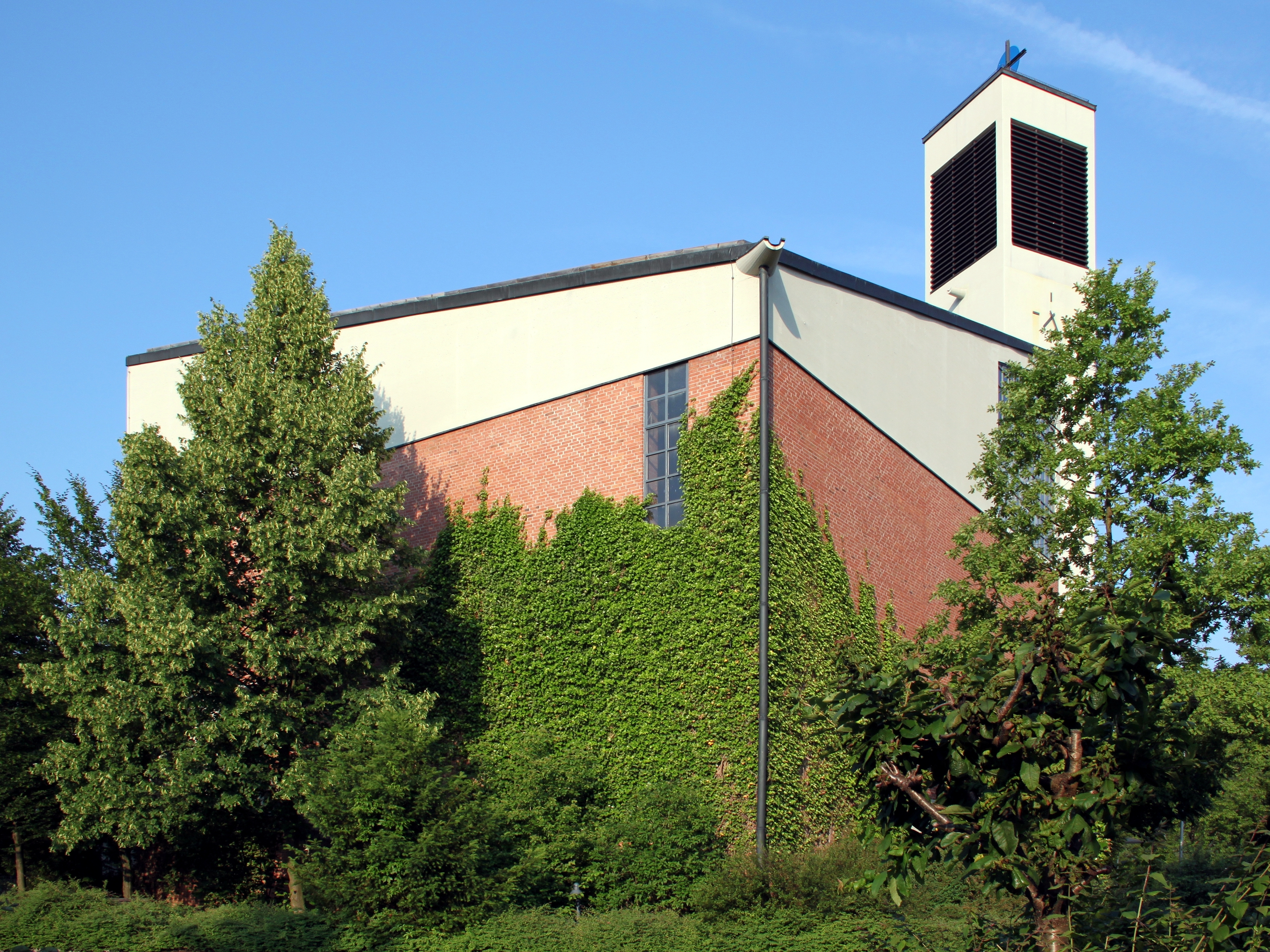 Ottobrunn: Michaelskirche (as seen from the east)